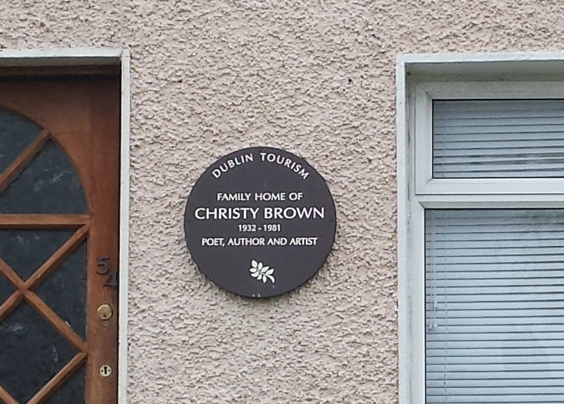 Family home of Christy Brown 1932-1981 poet, author and artist